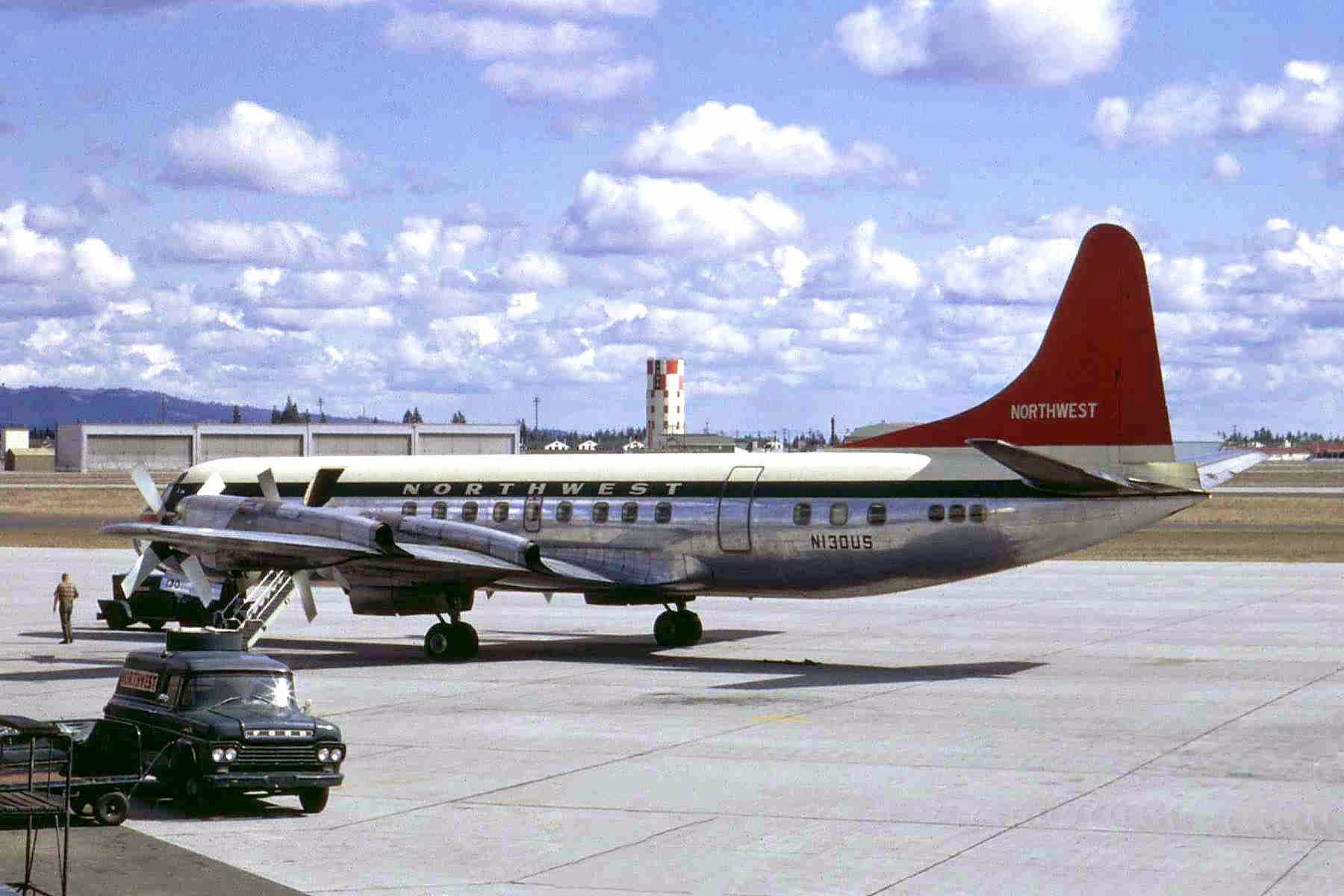 Taken at Spokane (GEG), WA, USA